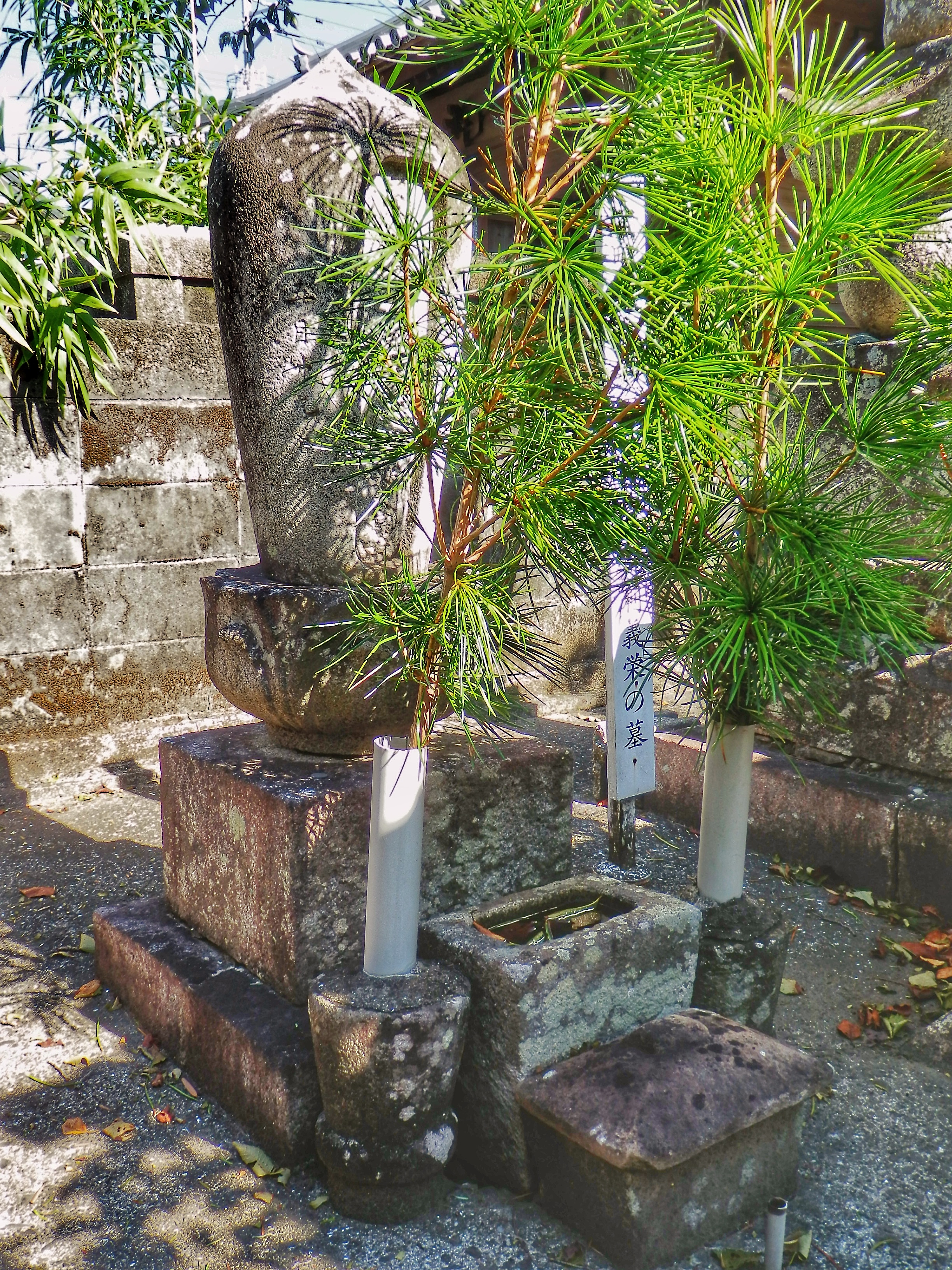 The tomb of Ashikaga Yoshihide, in Saikō-ji, Anan, Tokushima, Japan